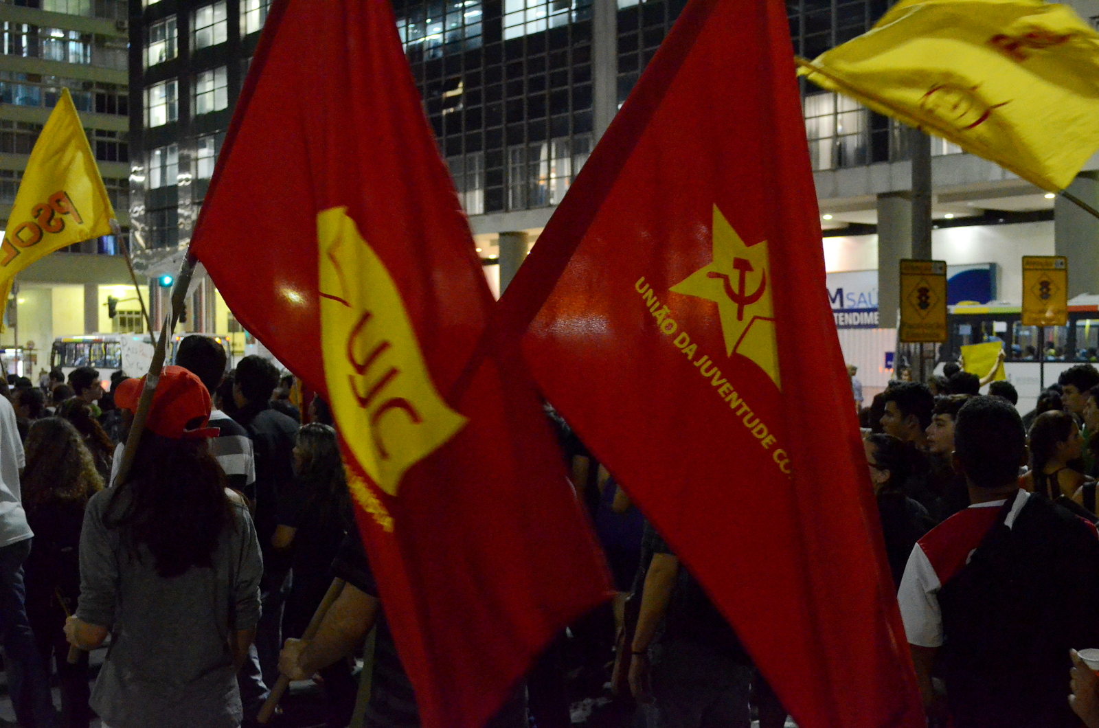 Flags of the Young Communist Union (UJC) during protests against the increase in fares in 2013.